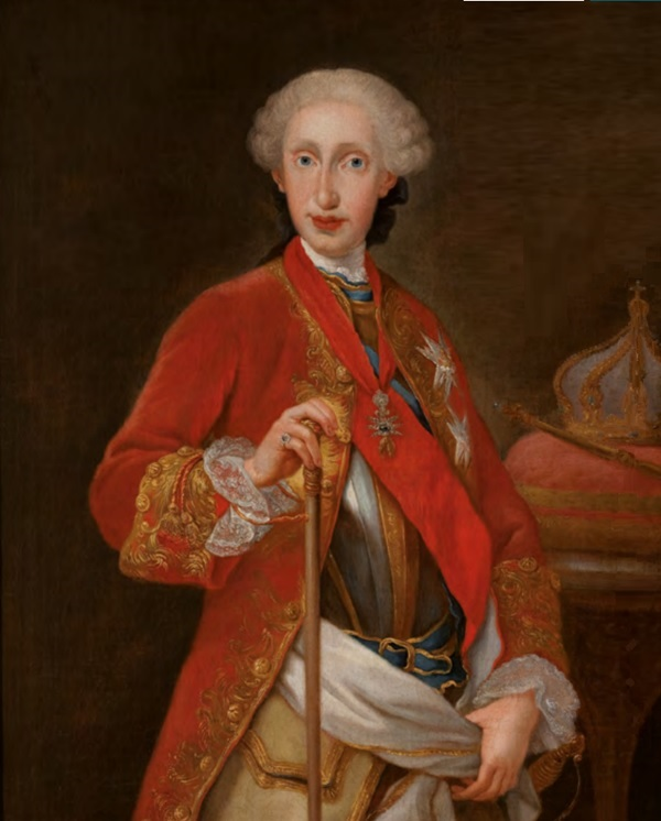 Portrait of Ferdinand IV of Naples (1751-1825)